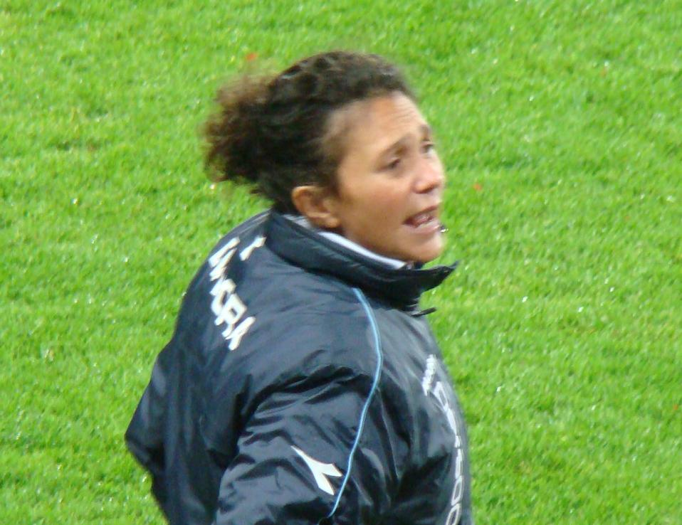 FC Twente coach Mary Kok-Willemsen